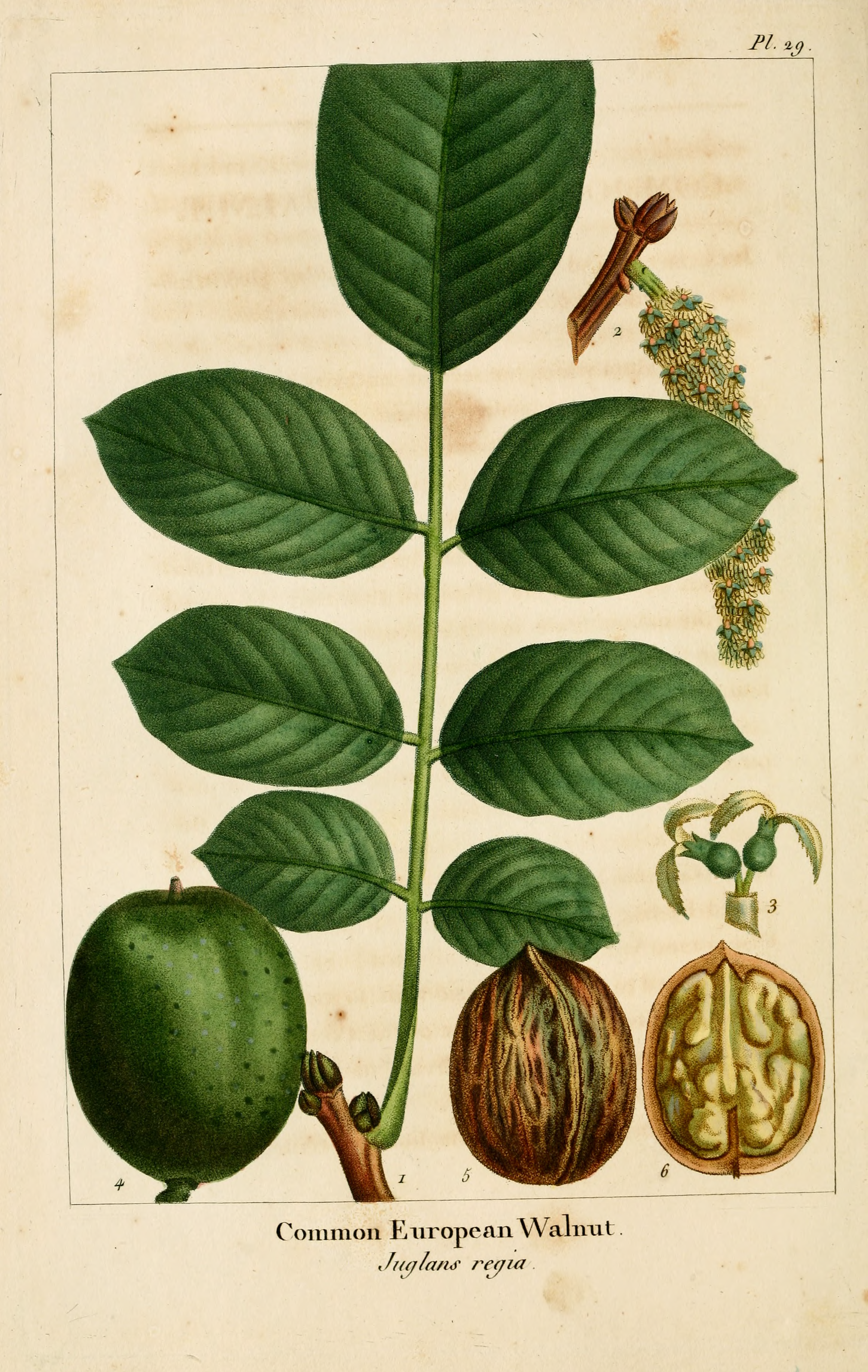 Juglans regia - Common European Walnut